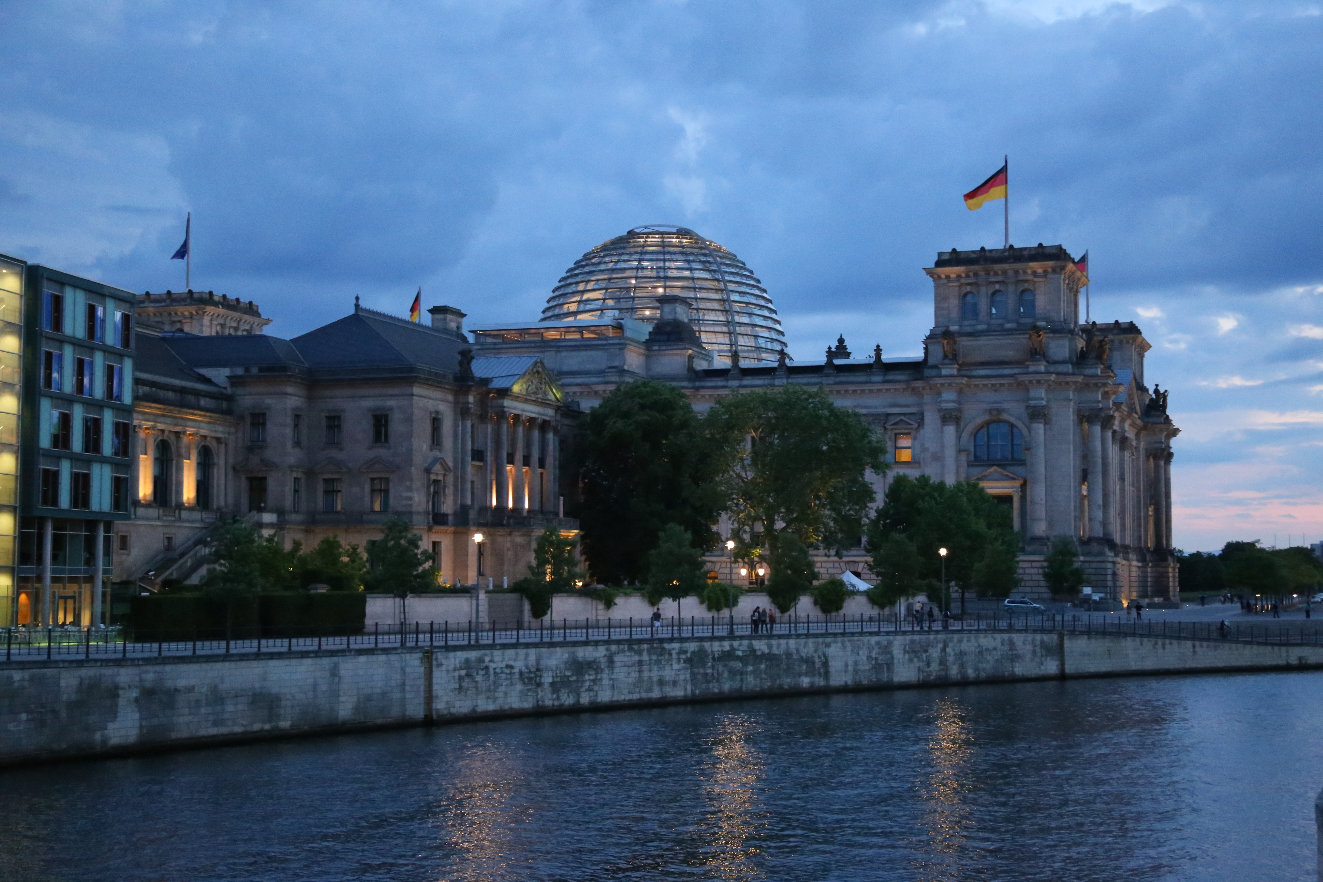 Reichstag as seen at night from from across the Spree